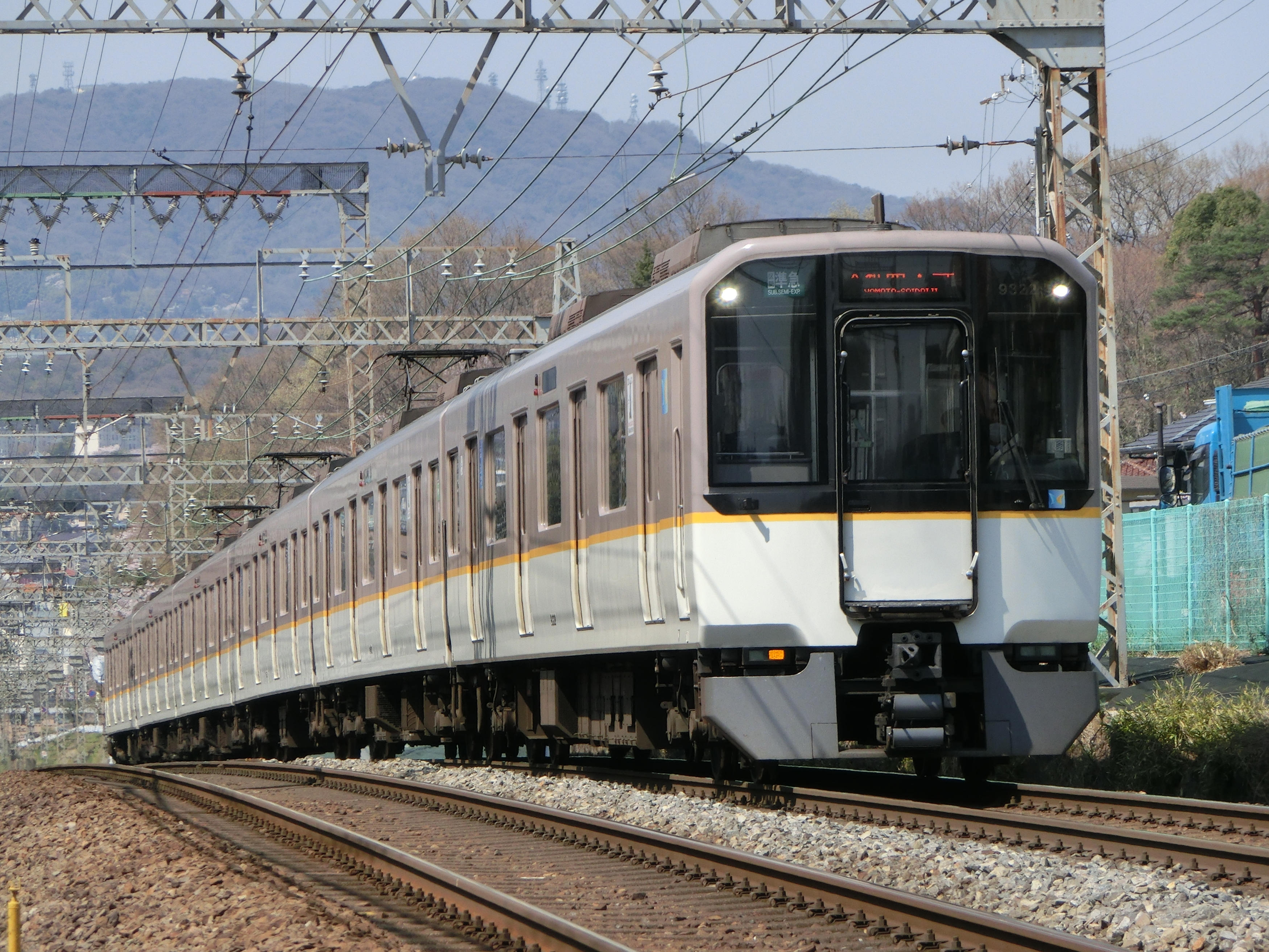 Kintetsu 9820 series EMU set 9822